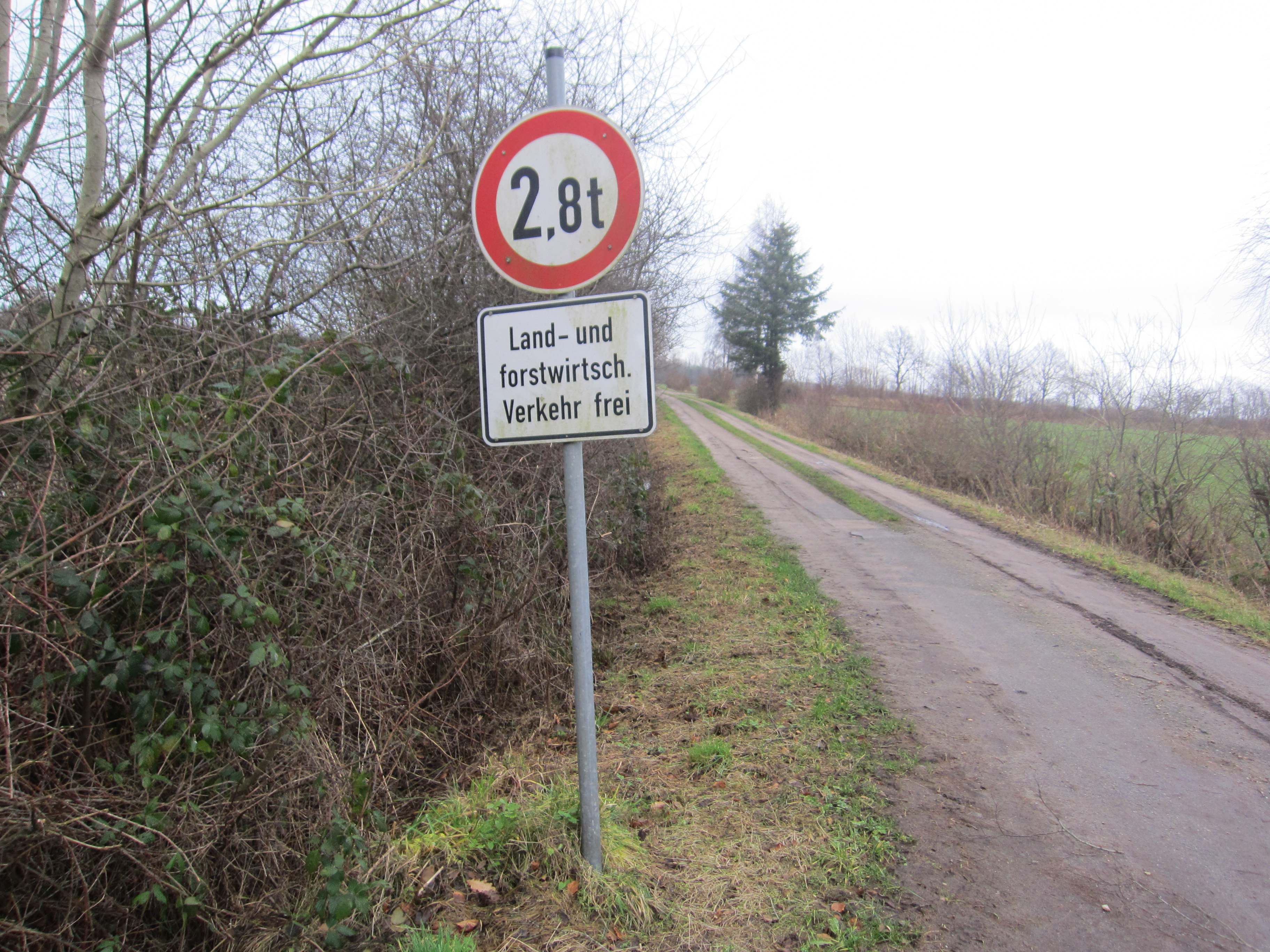 Traffic sign "Land- und forstwirtschaftlicher Verkehr frei" in the street "Süderkamp" in Ostenfeld, Nordfriesland.